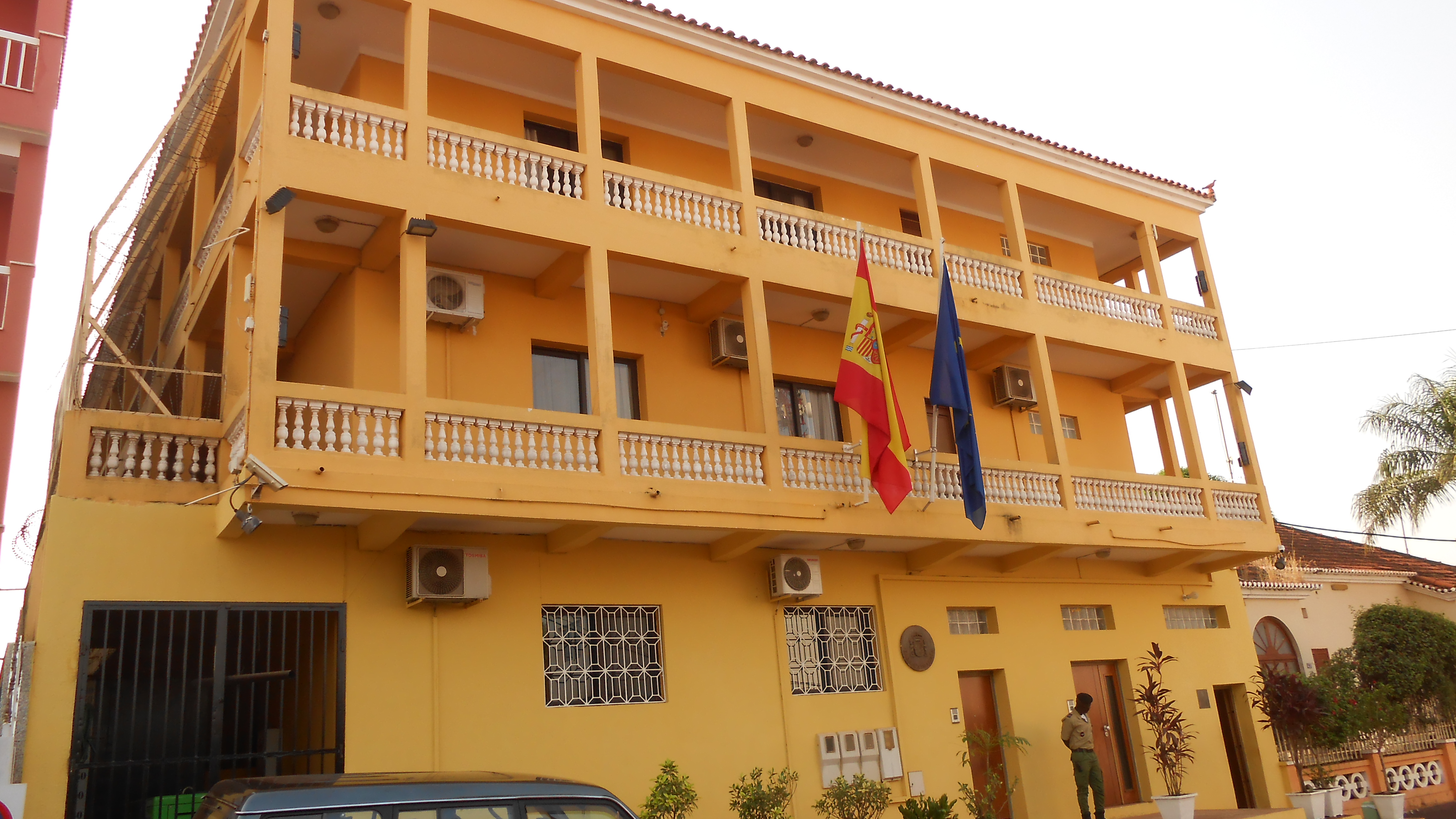 The spanisch embassy in Bissau, located next to the Hotel Império at the central Praça dos Heróis Nacionais square.